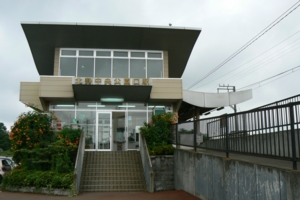 Hokusei Chuo Koenguchi Station